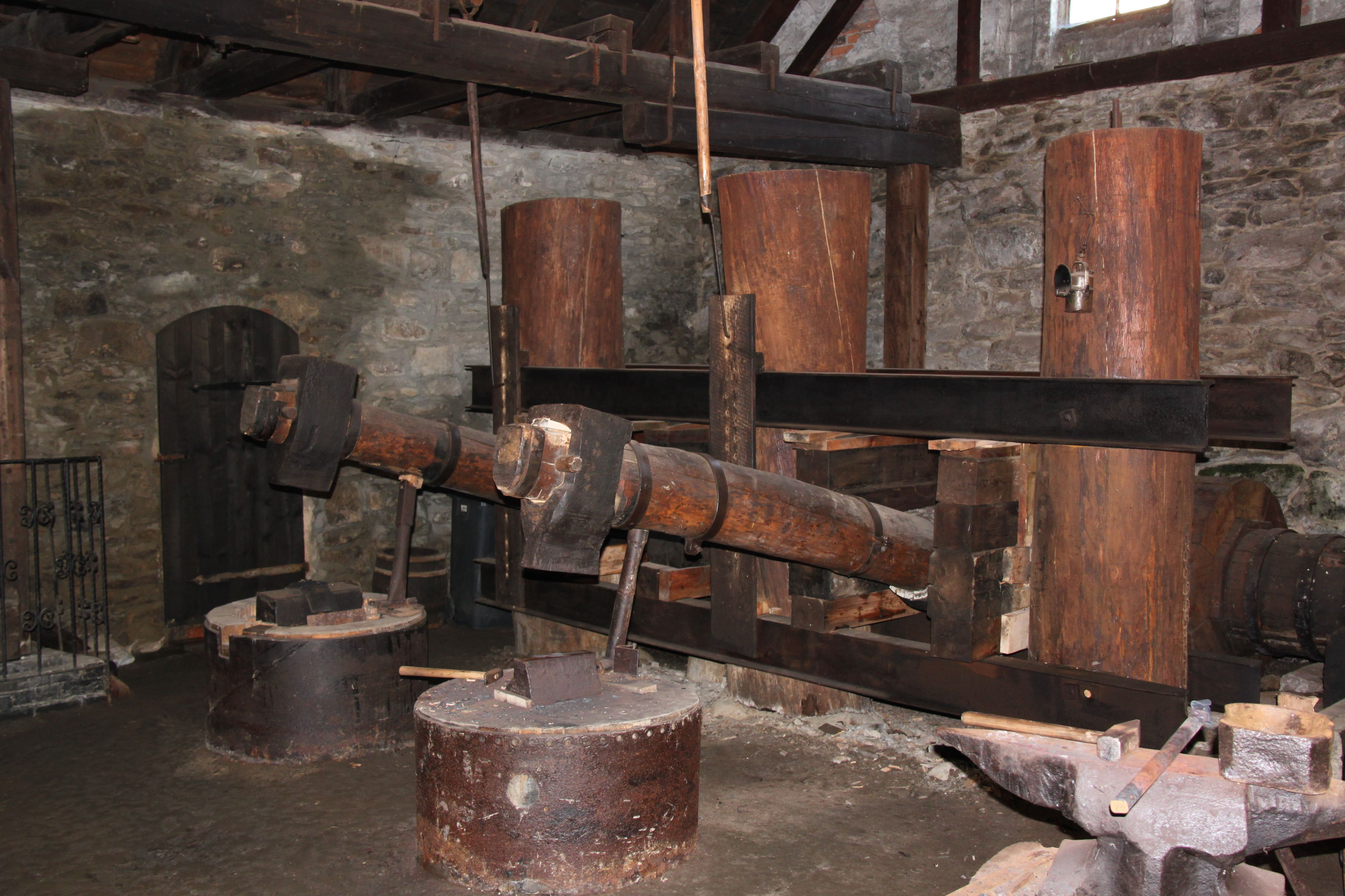 This image shows the historic ironworks in Dorfchemnitz in the Erzgebirge. The ironworks was built 1567.